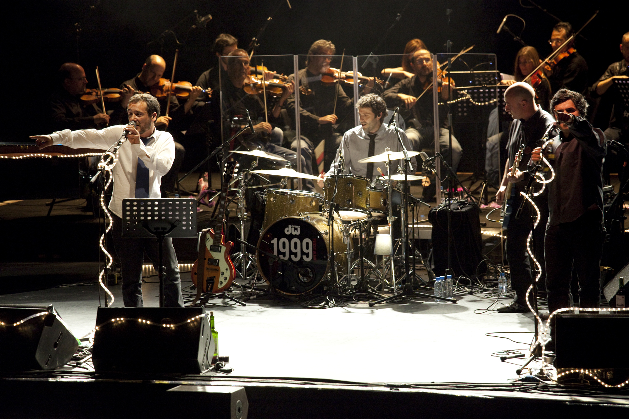 Love Of Lesbian + ONCA / Teatre Auditori Sant Cugat